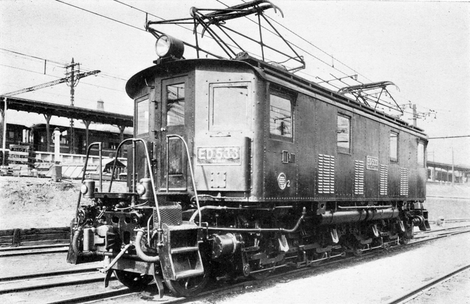 JGR Class EF53 (later reclassified EF19) electric locomotive EF53 3